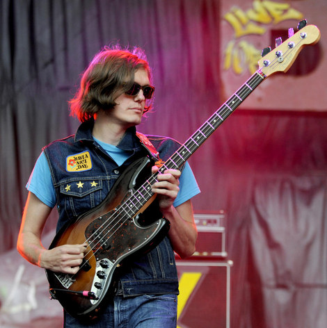 Nikolai Fraiture playing at reading festival